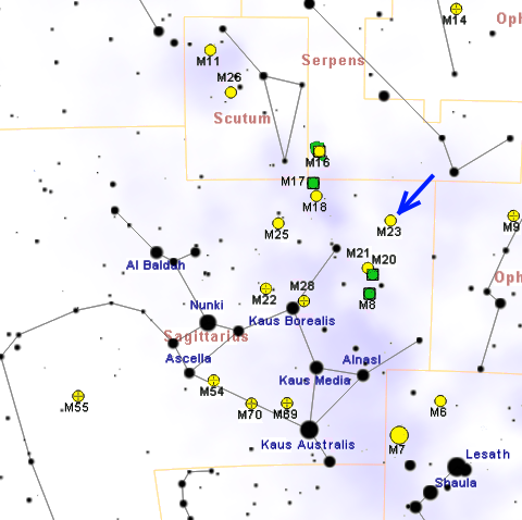 Map of M23